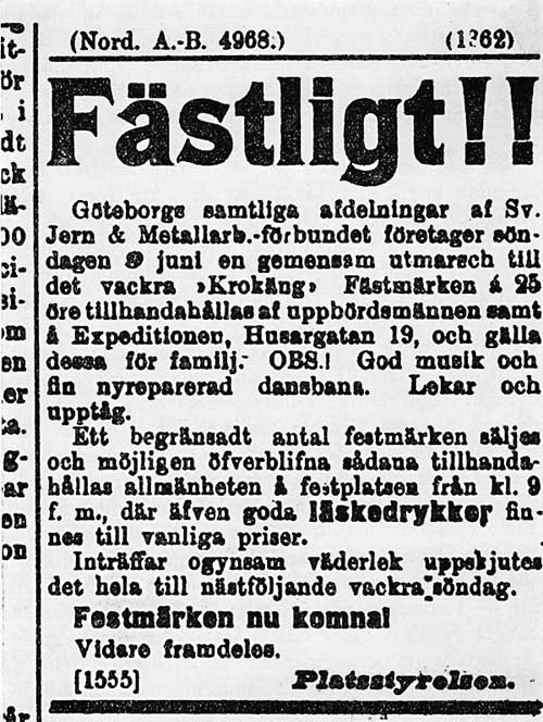 Advertisement for fairground Krokäng in Gothenburg, Sweden